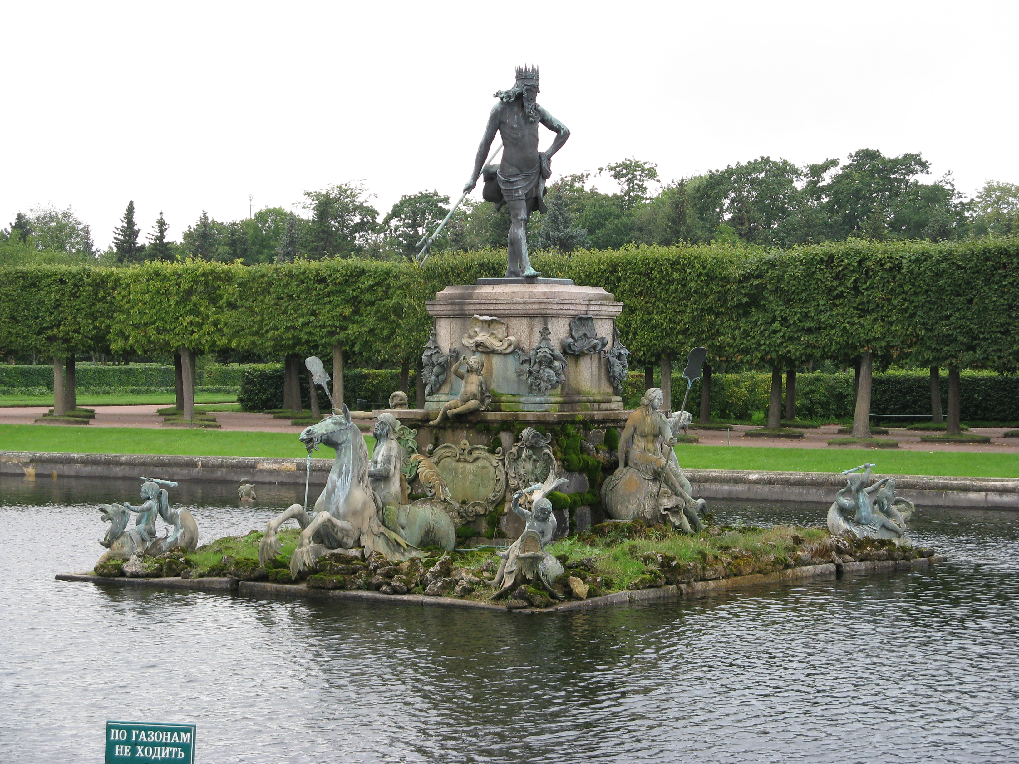 Neptune Fountain at Peterhof.